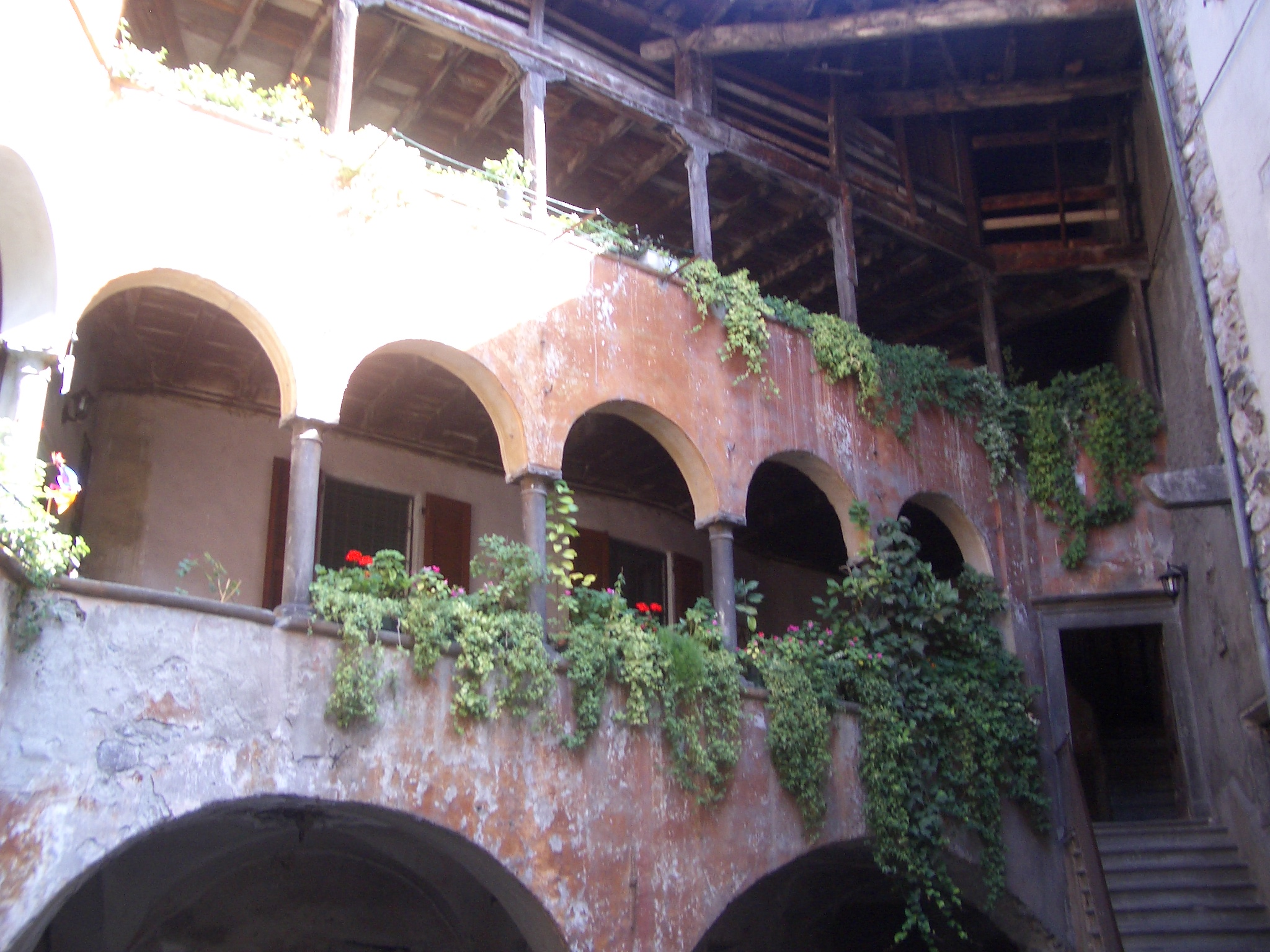 View of an ancient house, Casa Bettoni, Bienno, Brescia, Italy